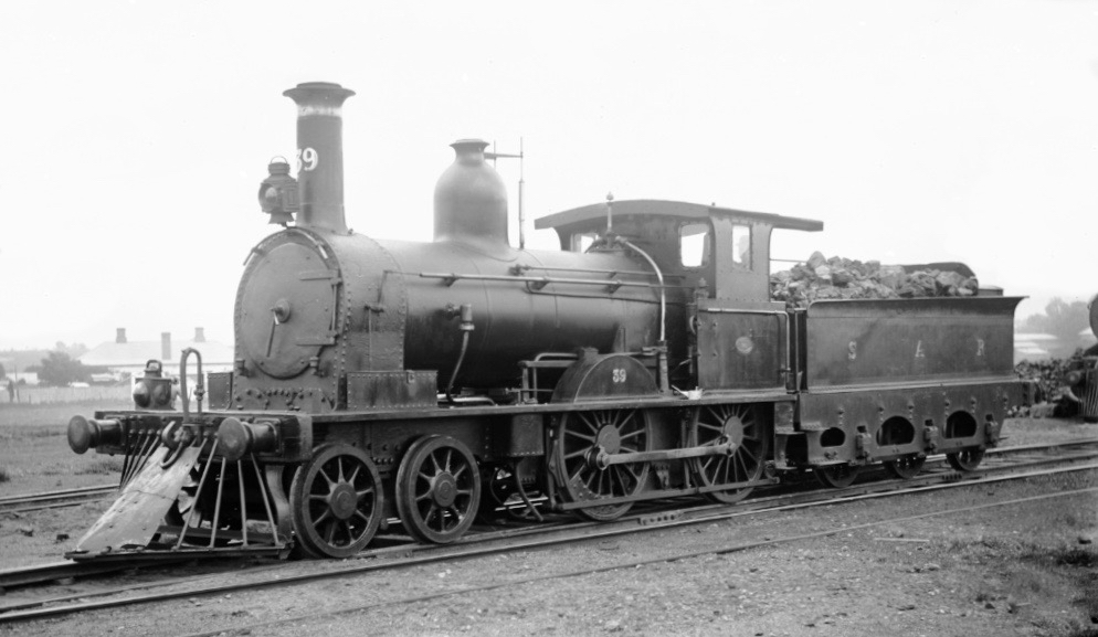 Half-plate glass negative of South Australian Railways L class locomotive No.39. L class locomotive No.39 was built by Beyer, Peacock and Company of Manchester, England. It was commissioned in 1880 and condemned in 1931.